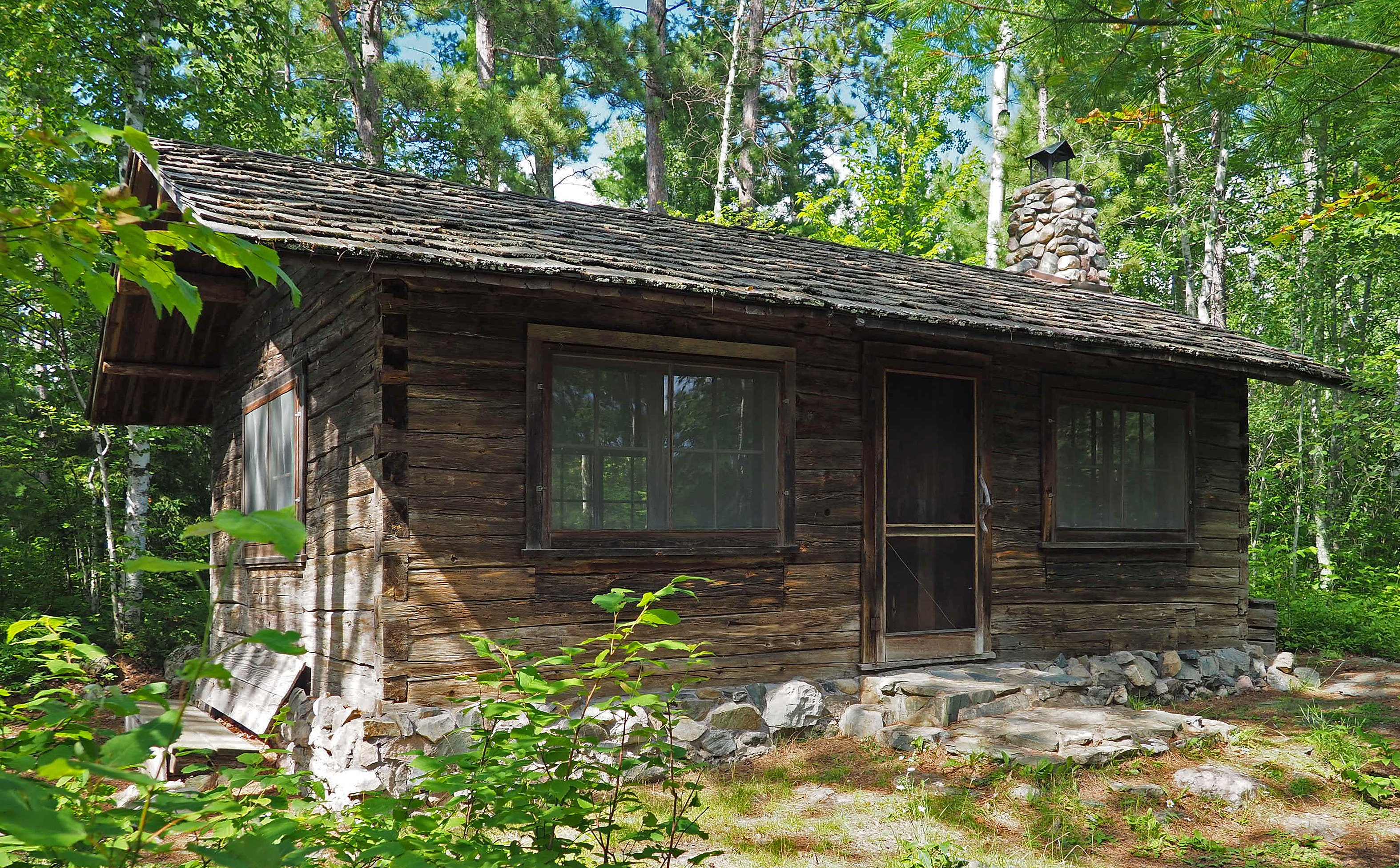 Cabin, Listening Point, 3128 Van Vac Rd, Morse Township, Minnesota, USA. Viewed from the south. Taken on private property with permission.